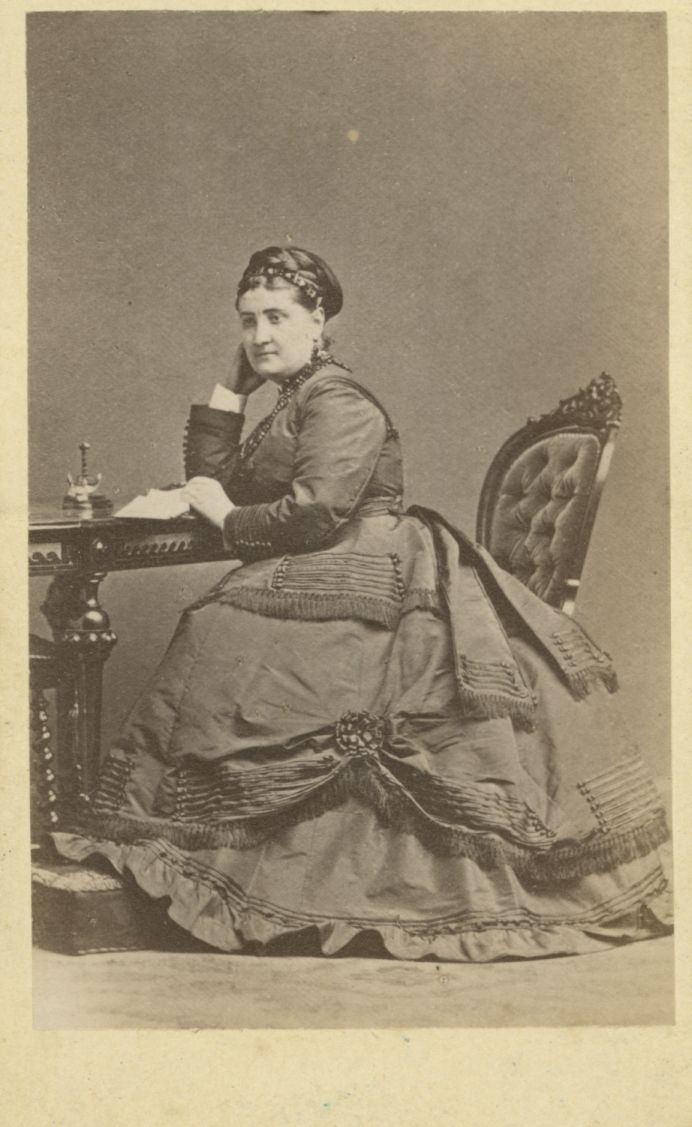 Artist: Date/place: Subject: Carlotta Patti Medium: Photographic posetive Notes: Italian soprano. Born in Florence 30.10. 1840 - dead in Paris 27.06. 1889 Original belongs to the Archives at Bergen Public Library